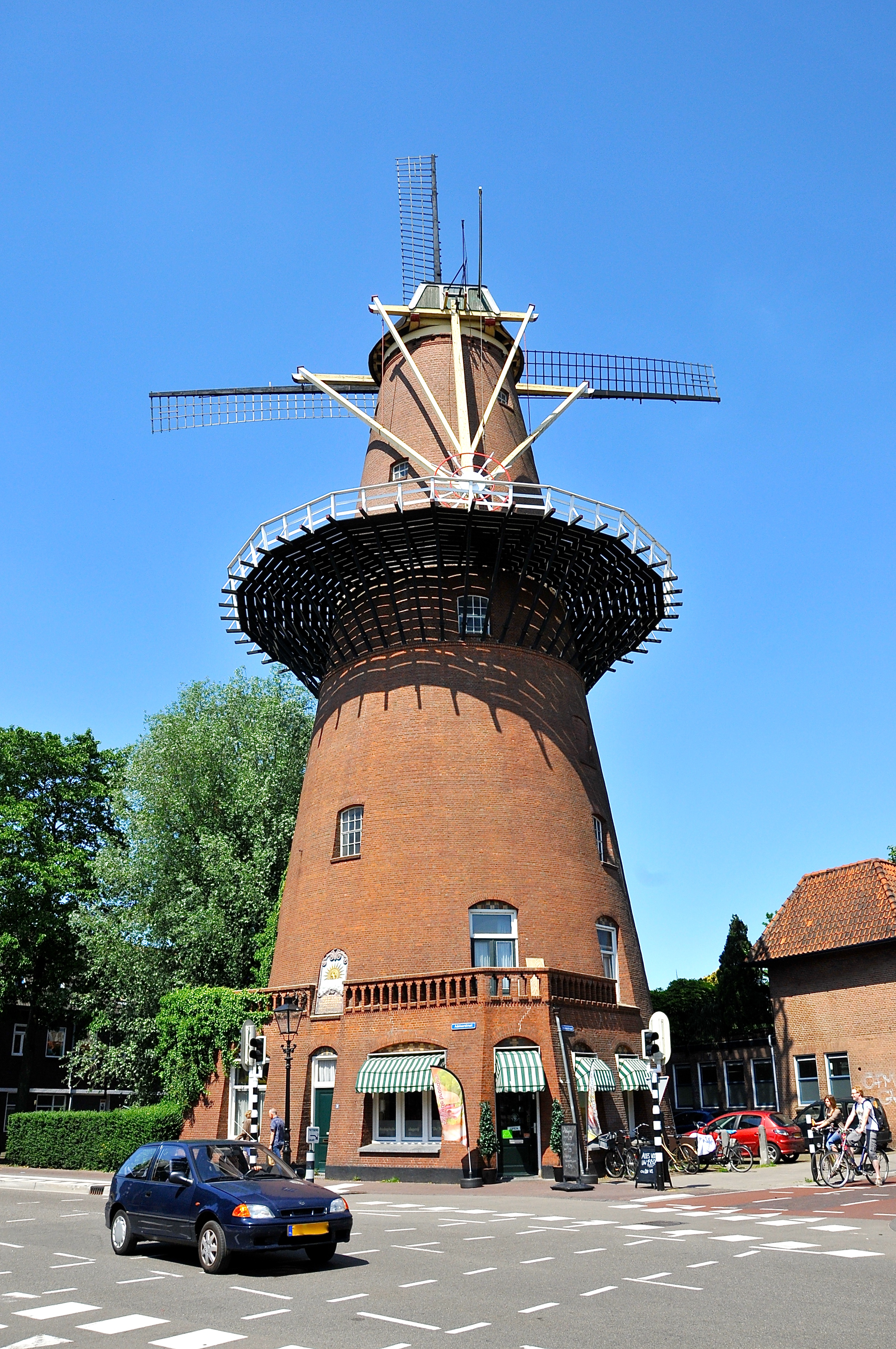 Stellingmolen 'Rijn en Zon' (bouwjaar 1913-1977). Meer info